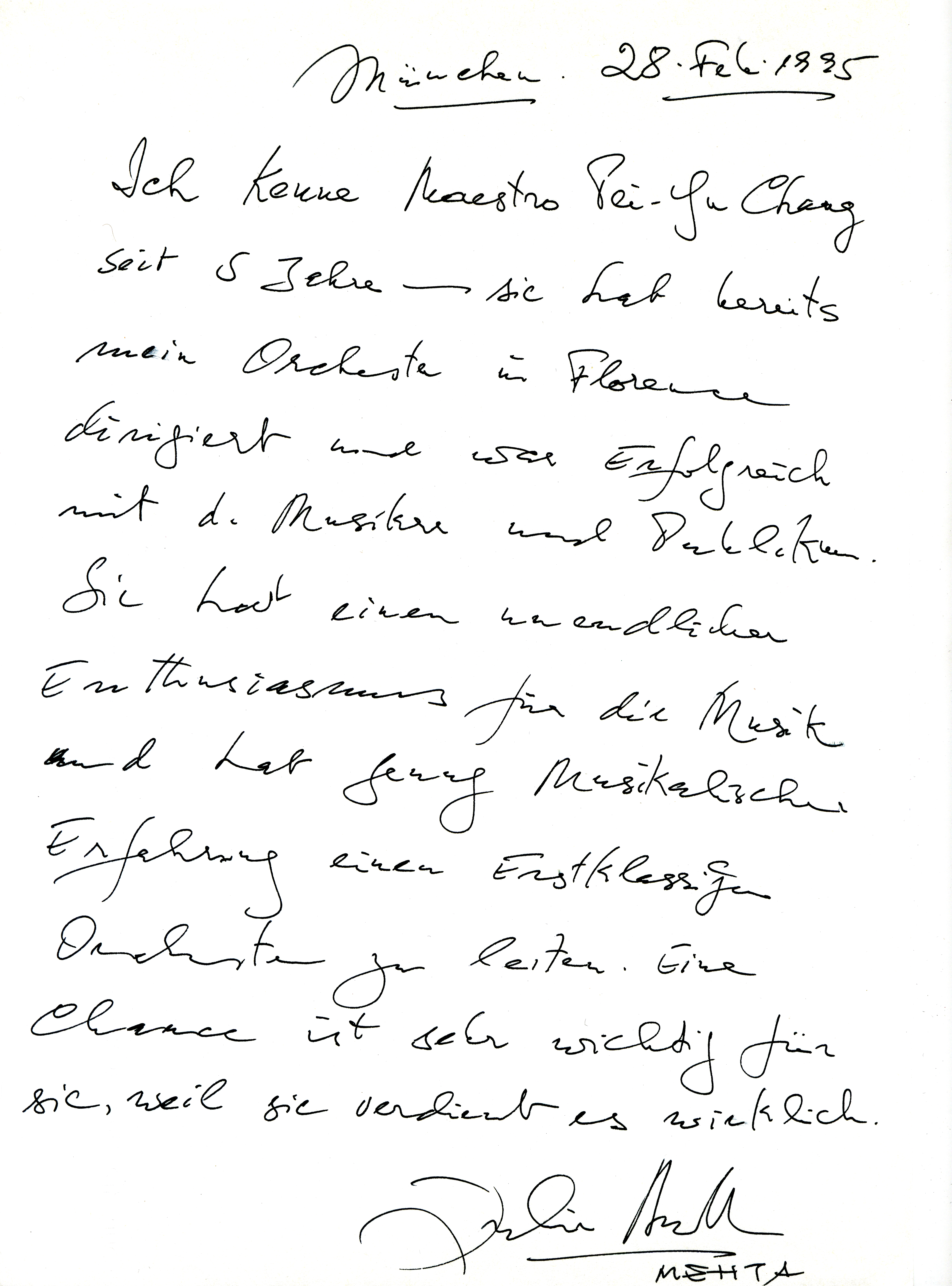 Reference letter written by Zubin Mehta for Pei-Yu Chang (张培豫).